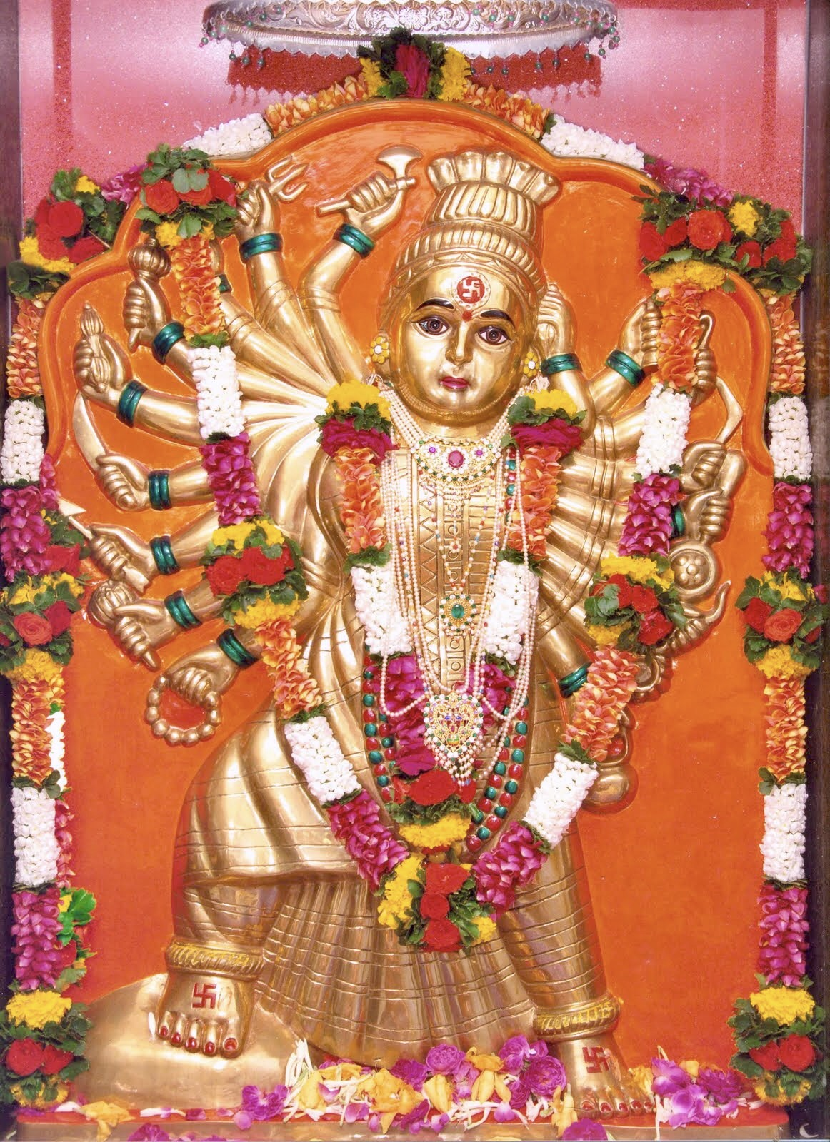 An image of Goddess Chandika at Sri Gurukshetram aka Happy Home!